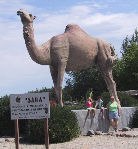 Sara the Camel, Glenboro Manitoba July 2006 My own picture, released into public domain.